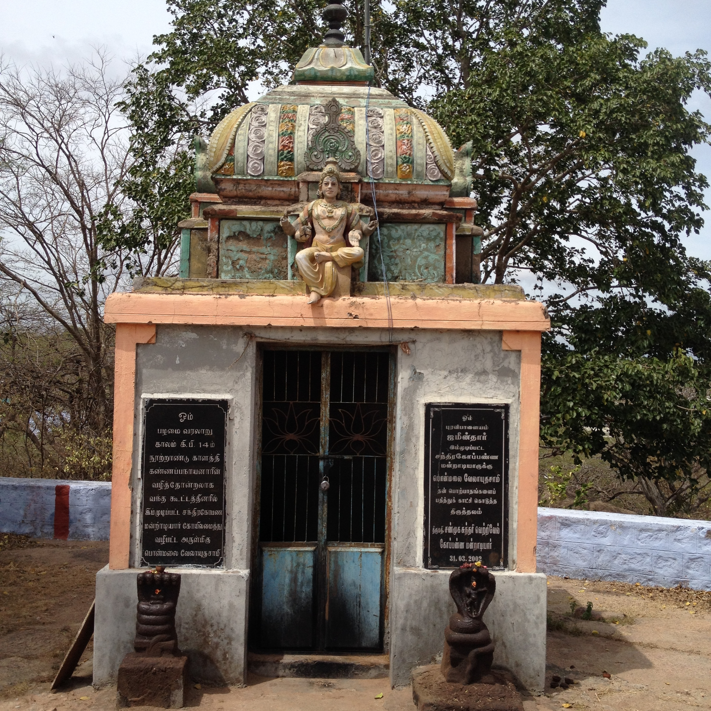 Kinathukadavu Ponmalai Velayudhaswamy temple